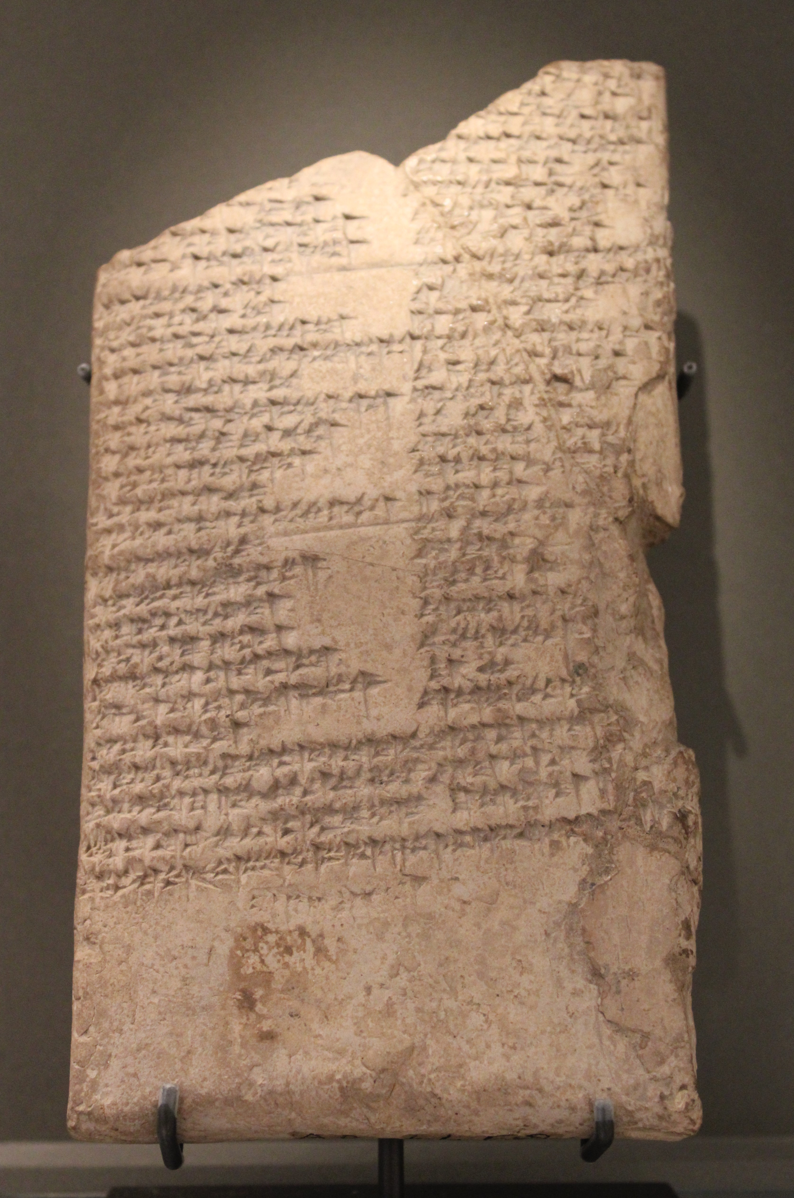 The “righteous sufferer”, tablet of Babylonian wisdom literature. Old Babylonian period, reign of Ammiditana (1683-1647 BC), Babylonia (Iraq). AO 4462.